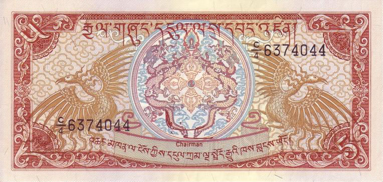 Billet de 5 ngultrum (Banknote of Bhutan)